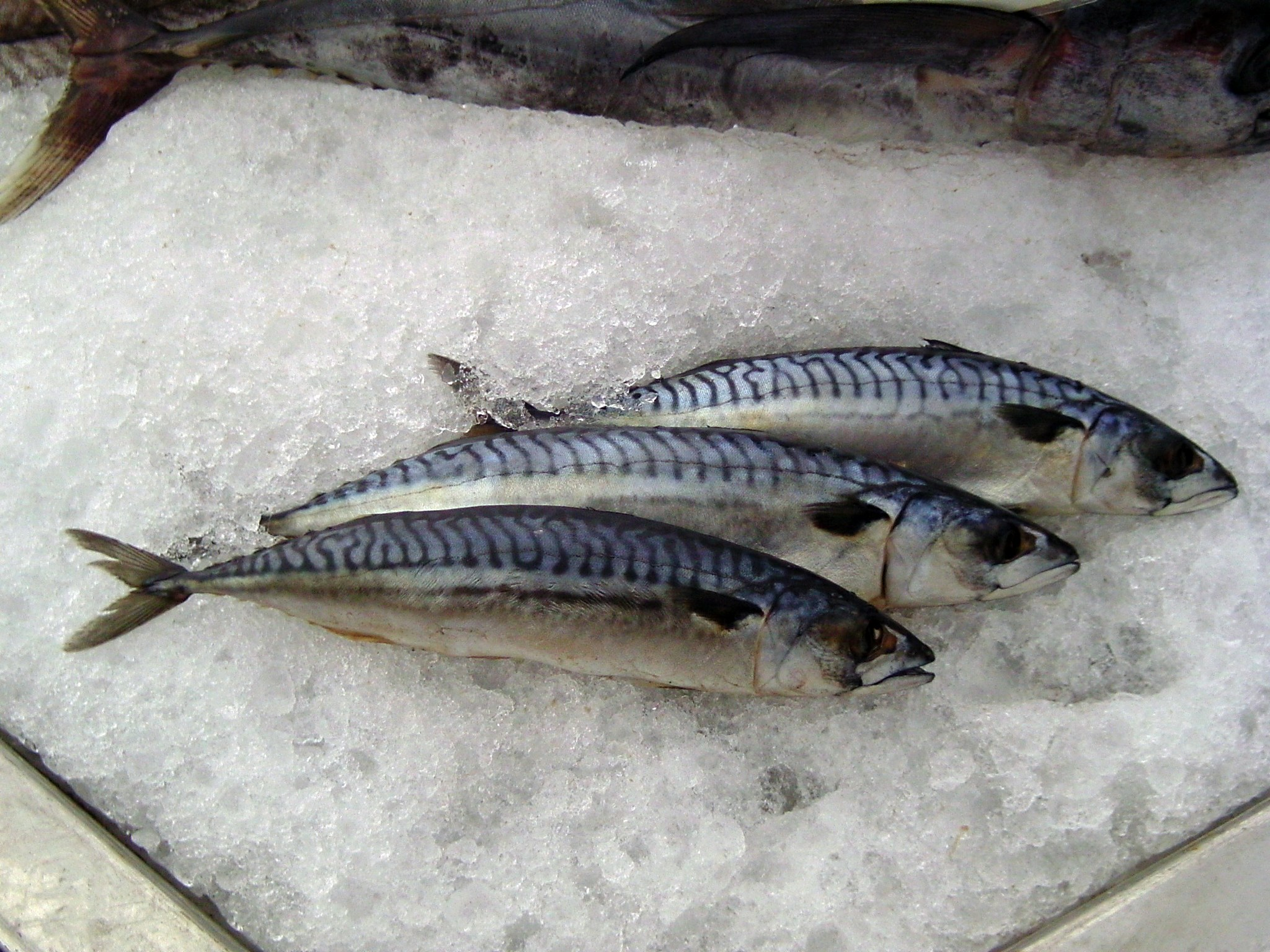 Atlantic mackerels